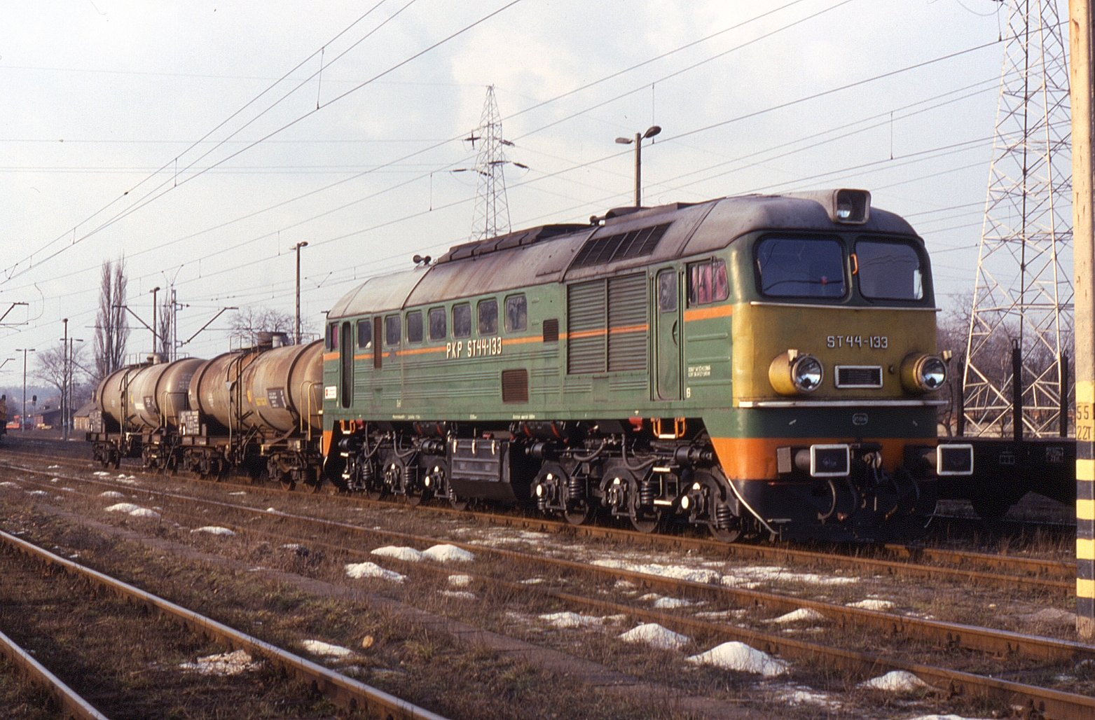 Part of the huge family of M62 locos built by the Voroshilovgrad Locomotive Factory in the Ukraine. Over 1,100 examples were built between 1965 and 1980 for PKP primarily for freight. With the decline in traffic levels as well as being heavy on fuel consumption, many were withdrawn and visits to Poland during the 1990s saw many stored in depots and sidings. An example in traffic is seen here on 21 March 1994 at Tomaszów Mazowiecki being ST44-133.